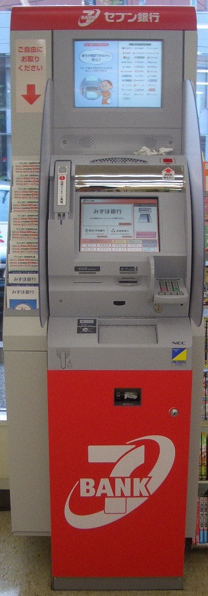 Seven Bank ATM in 7-ELEVEn.